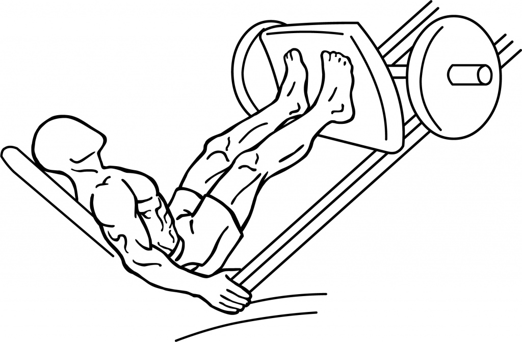 an exercise of thigh